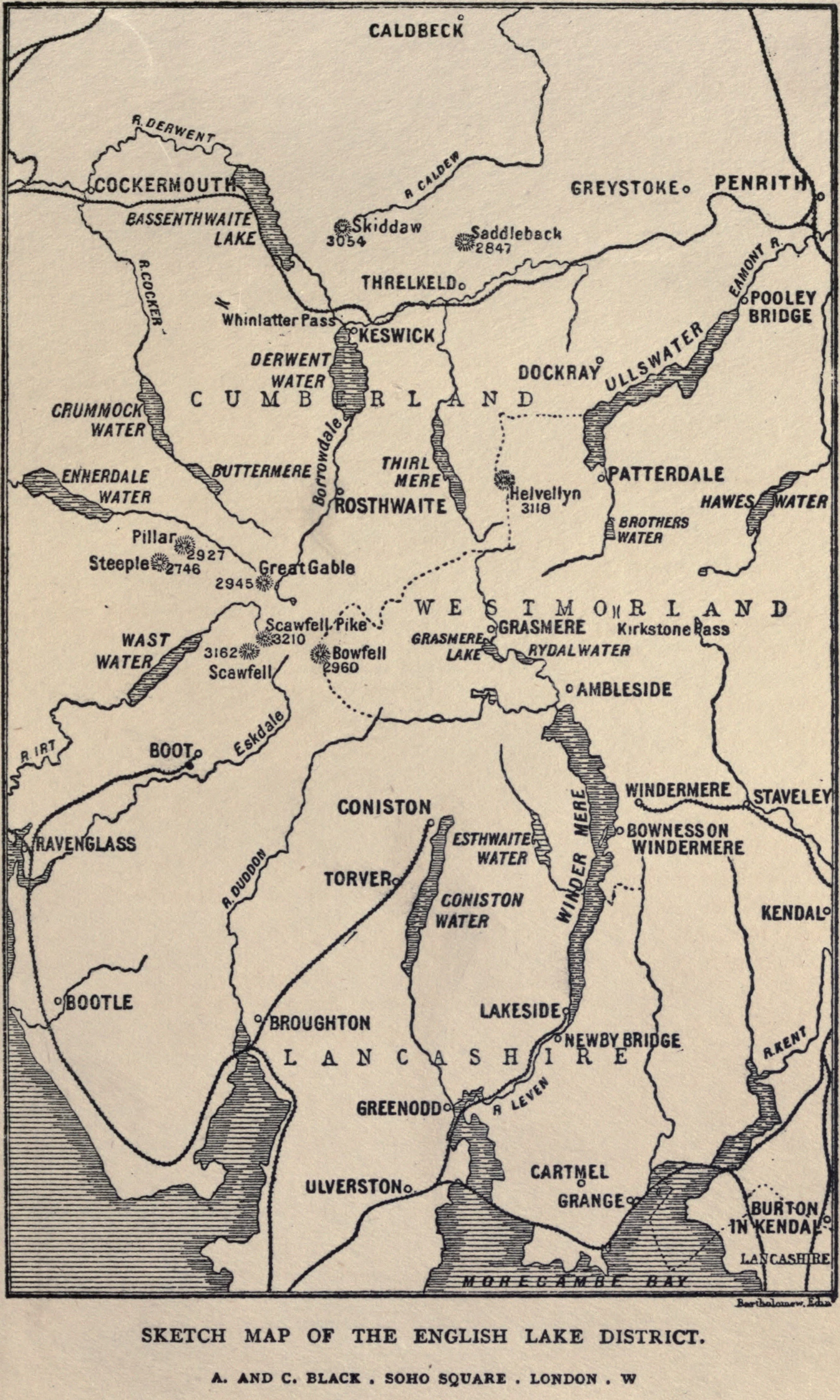 Sketch Map of the English Lake District.